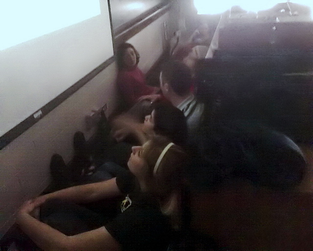 Students gather in Holden Hall during the massacre at Virginia Tech.